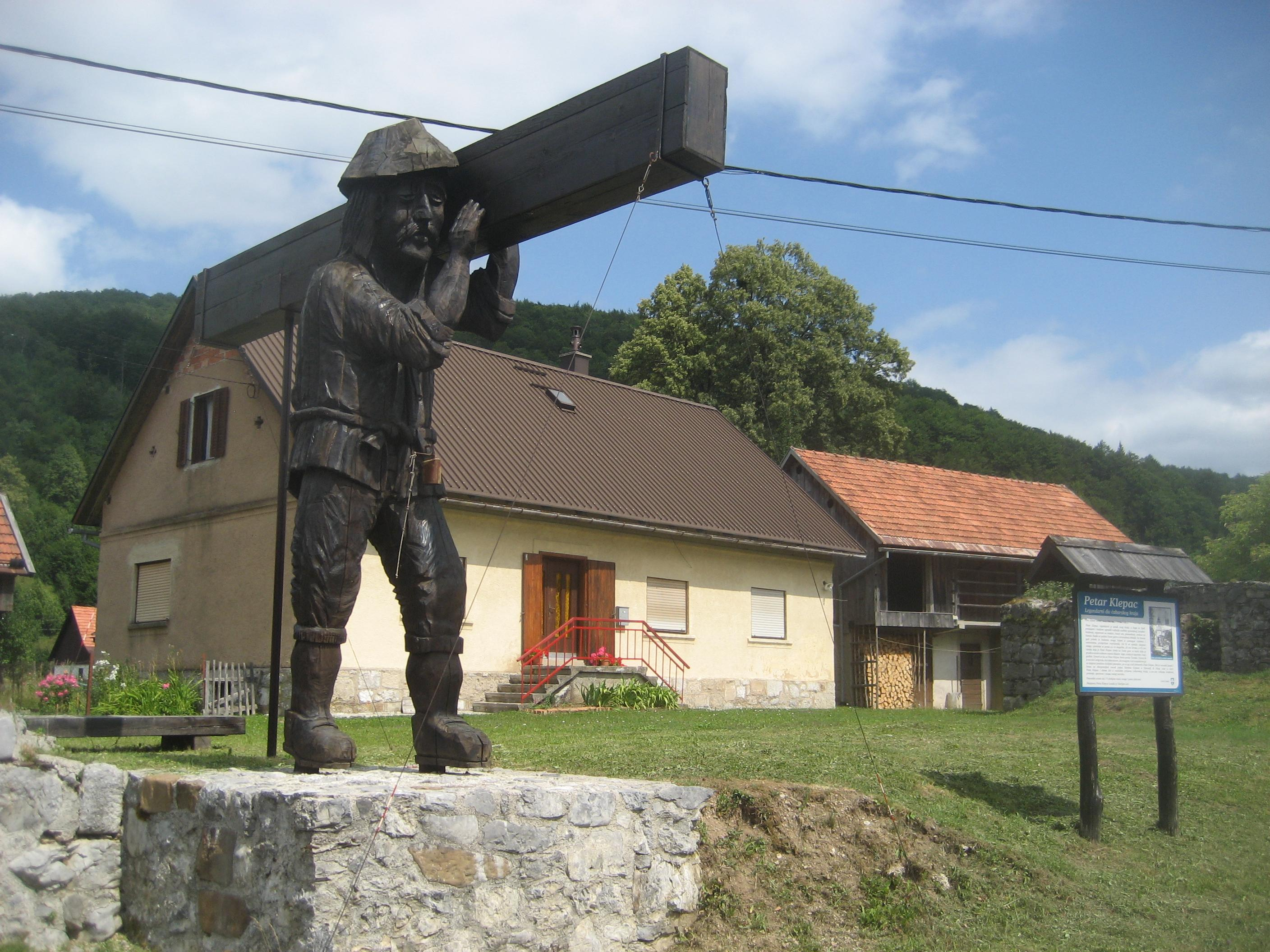 Petar Klepec, Croatian mythology